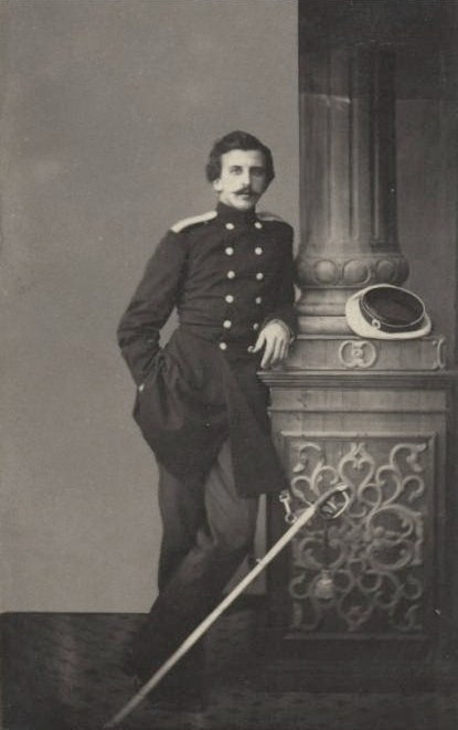 Vasiliy Alexeevich Sheremetev